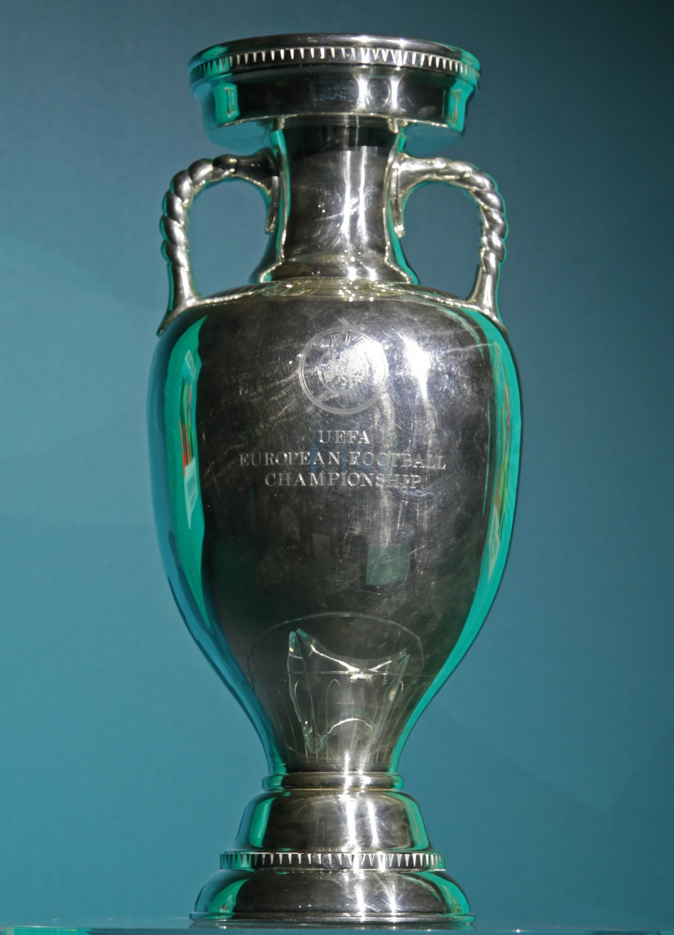 Henri Delaunay Trophy at the presentation of the UEFA Euro 2020 logo in Saint Petersburg, Russia.